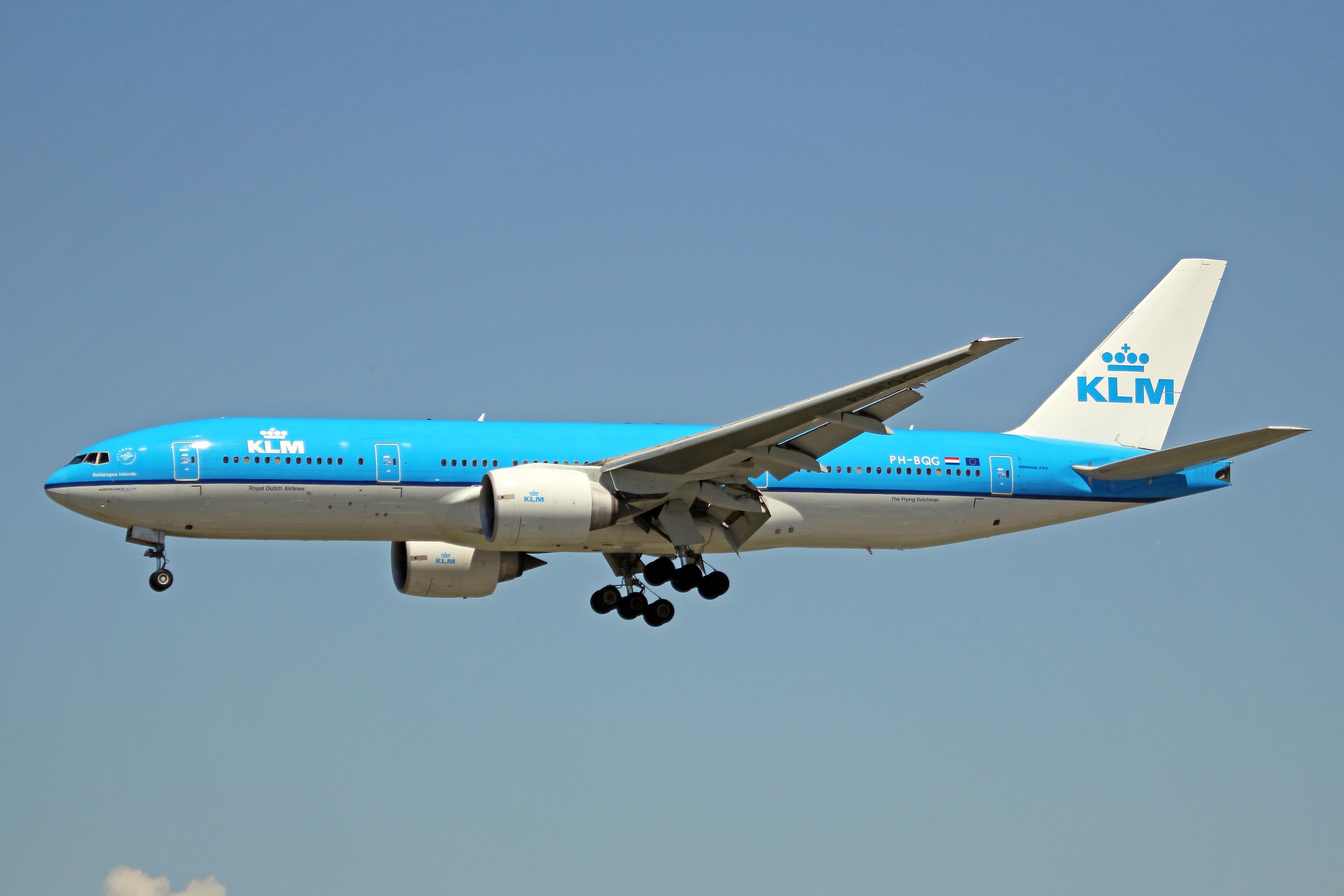 A picture of an airplane (name of it is on the file name).